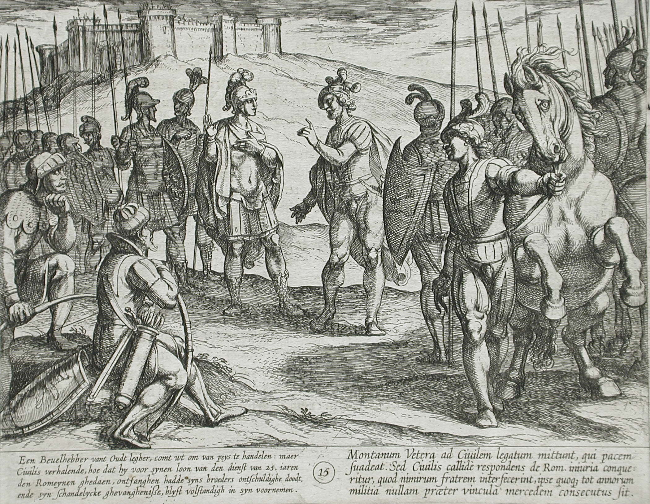 Italy, publshed 1612 Series: The War of the Romans Against the Batavians, pl. 15 Prints; etchings Etching Los Angeles County Fund (65.37.32) Prints and Drawings